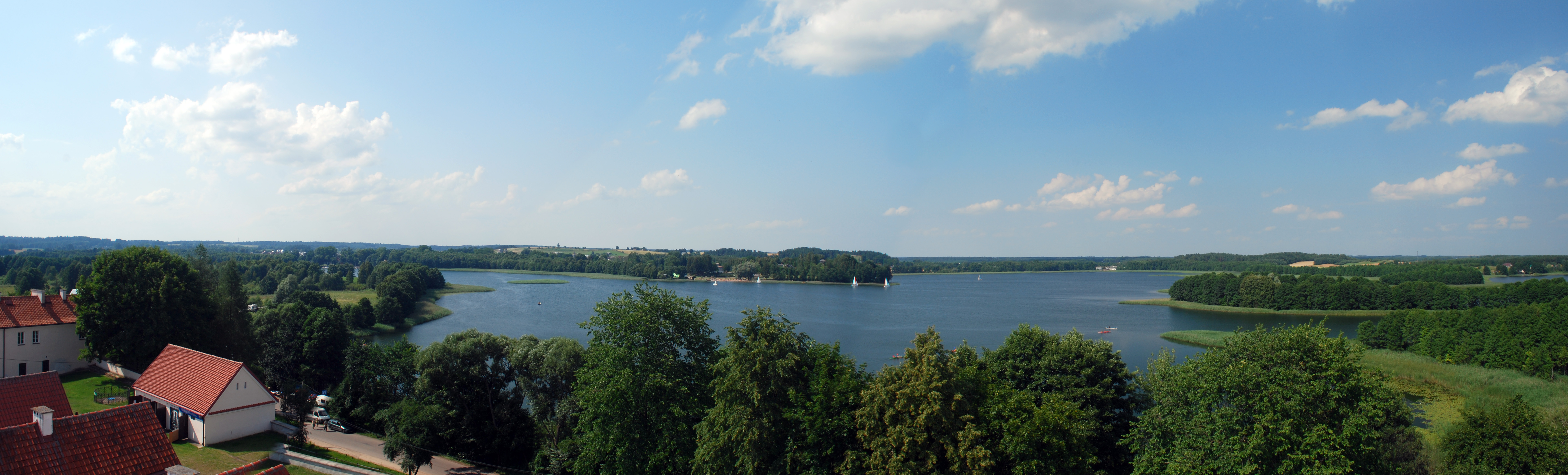 This photo from Podlaskie Voievodeship was taken during Polish Wikiexpedition 2009 set up by Wikimedia Polska Association. The making of this document was supported by Wikimedia Polska. Jezioro Wigry - panorama z wieży Klasztoru w wigrach.